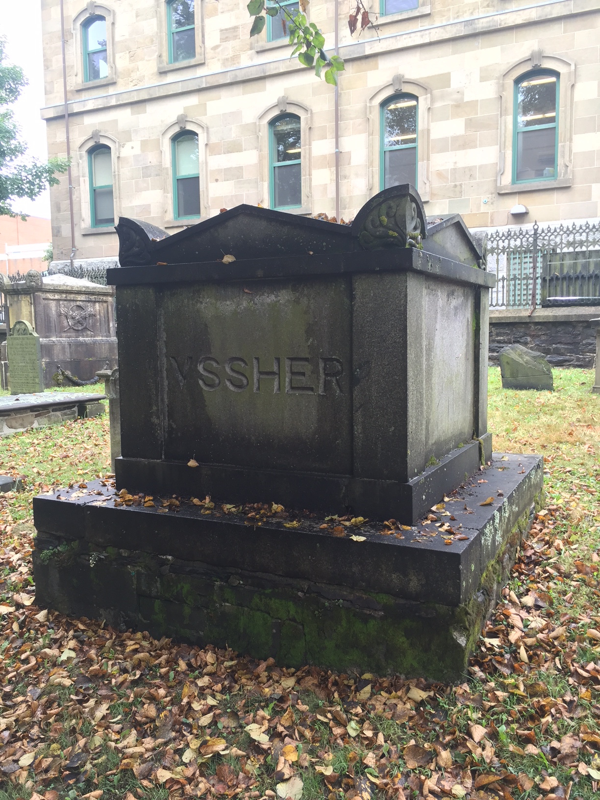 Eliza Ussher, wife of Commodor Sir Thomas Ussher, d. 1835